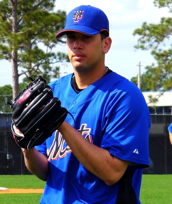 Oliver Pérez 02:45, 19 July 2007 . . Metsfan7 . . 590×700 (374,826 bytes)